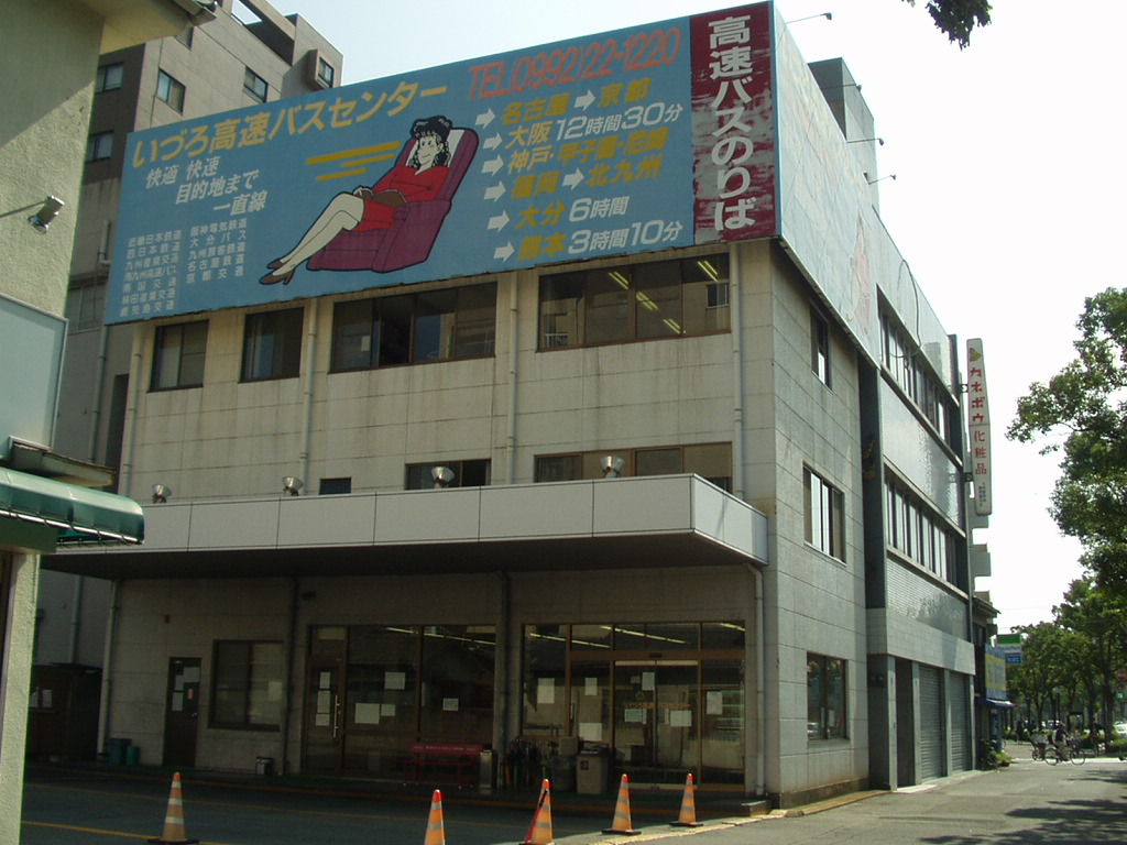 Izuro Highway Bus Center was closed on 31 March 2009. The bus station for highway bus services was relocated to the Kagoshima Port Toppi jetfoil Terminal.